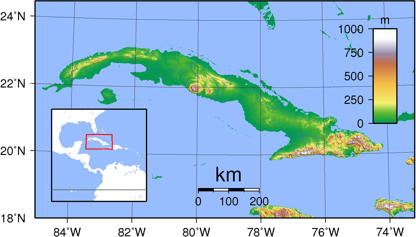 Topographic map of Cuba. Created with GMT from SRTM data.